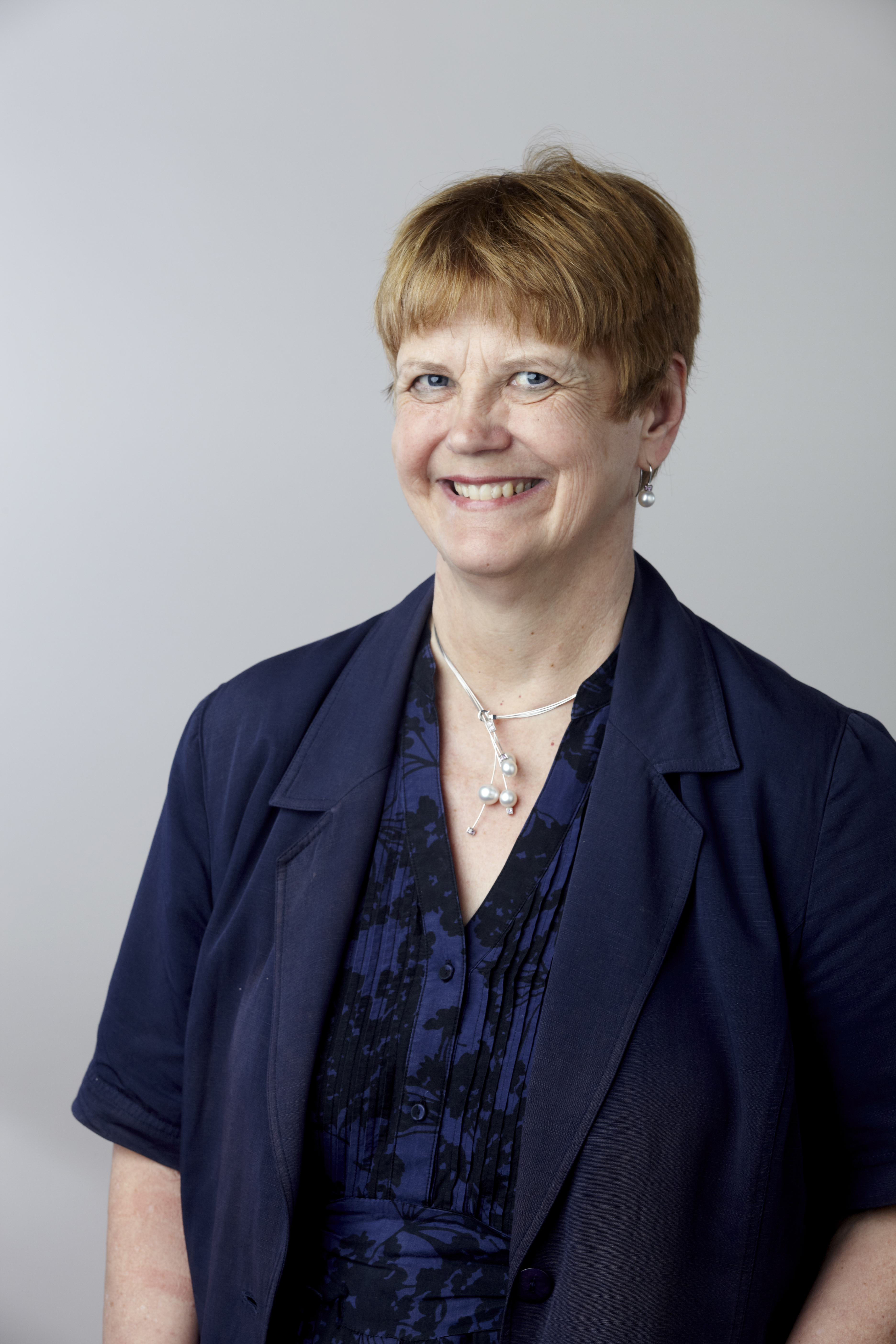 Professor Dorothy Bishop FBA FMedSci FRS, Royal Society Fellow elected 2014 Attribution: The Royal Society